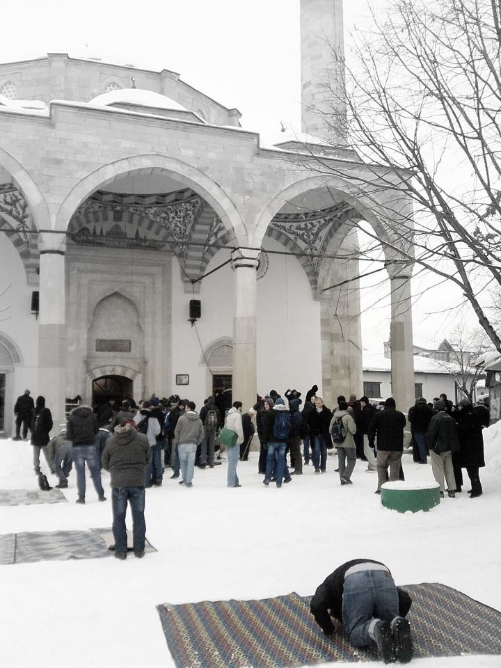 Muslim pray-Prishtinë:Opposite the clock tower, the Fatih or Imperial Mosque was built in 1461 under Turkish Sultan Mehmed II Fatih ('the conqueror'), as witnessed by the Arabic engraving above the main door. Inside, painted floral decorations and arabesques grace the walls and ceiling. Pristina's grandest building has a spectacular 15-metre dome resting on support pillars, an architectural feat at the time of construction. The minaret is a reconstruction after the original was damaged during an earthquake in 1955. The mosque was briefly turned into a church during the Austro-Turkish wars from 1690-1698. During Friday payers, the congregation spreads out into the courtyard and even onto the street to pray.